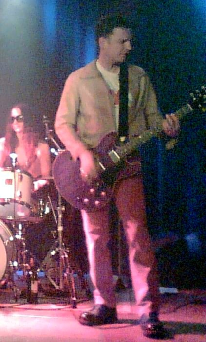 Allan Vainola performing with The Flowers of Romance in Tikkurila, Finland in 2006.